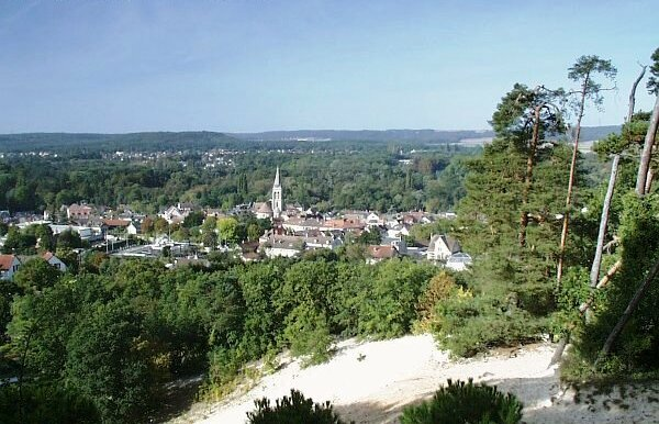 La Ferté Alais - general view This photograph was taken on 20041003 by Pete Harlow [1] using an Olympus C1400L digital camera. A Cokin A121 filter was used to reduce the contrast between sky and land. The photographer was on the west side of the camp site at the top of what I believe is called La Sablière - a steep sandy slope to the north of the cemetery.